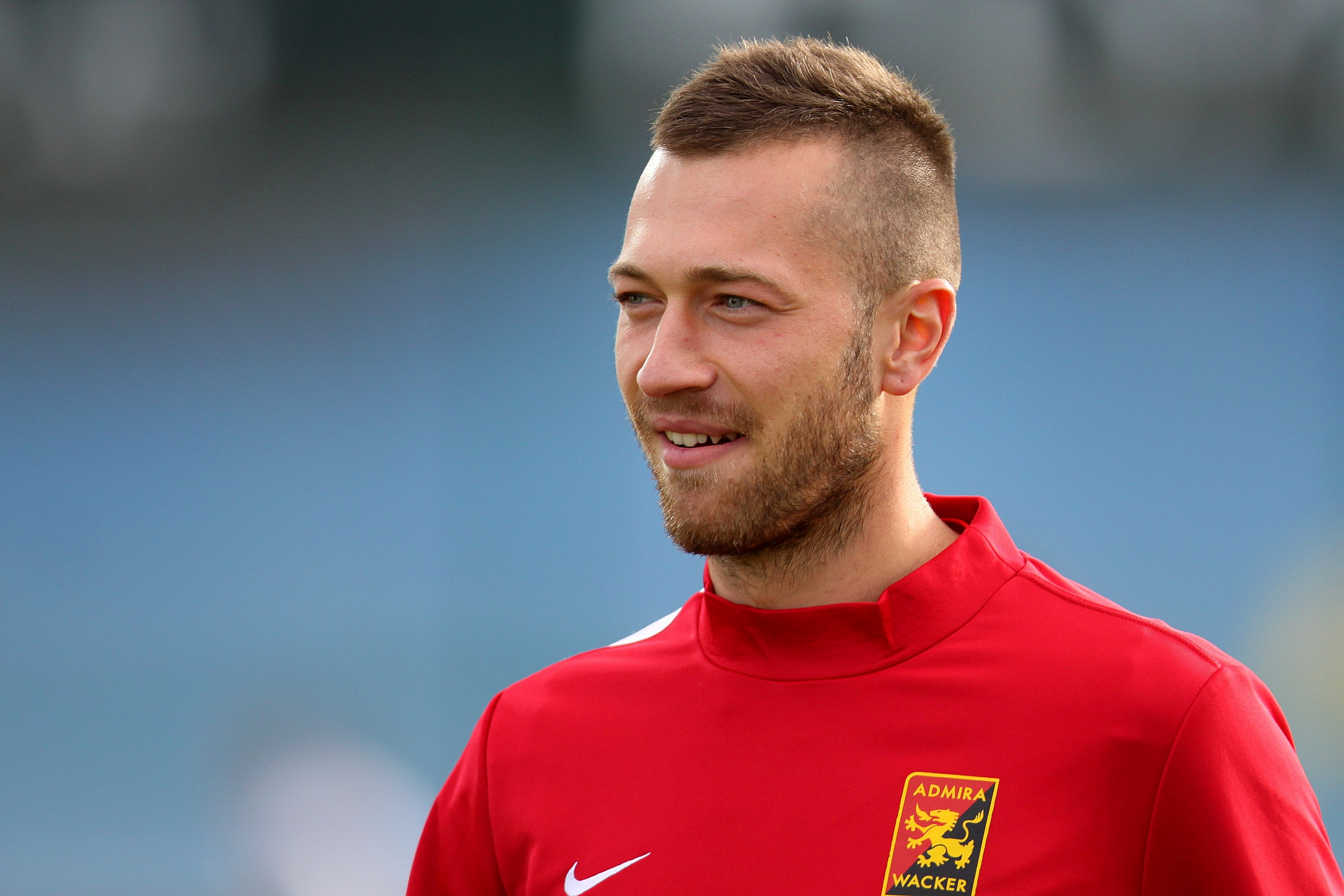 Match of the Austrian Football Bundesliga – FC Admira Wacker Mödling (red shirts) vs. SK Sturm Graz (white shirts) 0-1 (0-0) on 2015-09-27 in Bundesstadion Sudstadt – The photo shows Peter Zulj